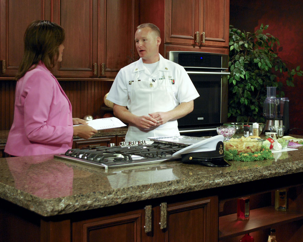 MINNEAPOLIS, Minn. (July 22, 2010) Chief Navy Counselor John Epp performs a cooking demonstration on a local TV station as part of Twin Cities Navy Week. Twin Cities Navy Week is one of 20 Navy Weeks planned across America for 2010. Navy Weeks show Americans the investment they have made in their Navy and increase awareness in cities that do not have a significant Navy presence. (U.S. Navy photo by Mass Communication Specialist 3rd Class Sean Gallagher/Released)